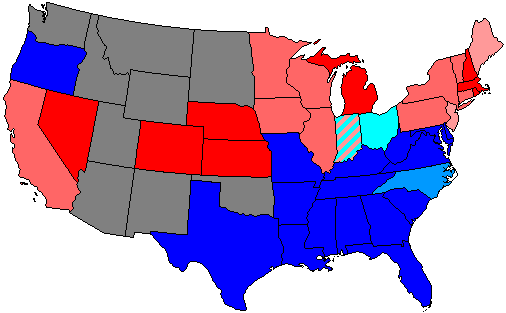 Summary of party control of U.S. house seats in the 46th United States Congress following election. Stripes indicate a tie between two or more parties. Legend: 80.1-100% Democratic seat majority 60.1-80% Democratic seat majority 60% or less Democratic seat plurality 60% or less Republican seat plurality 60.1-80% Republican seat majority 80.1-100% Republican seat majority